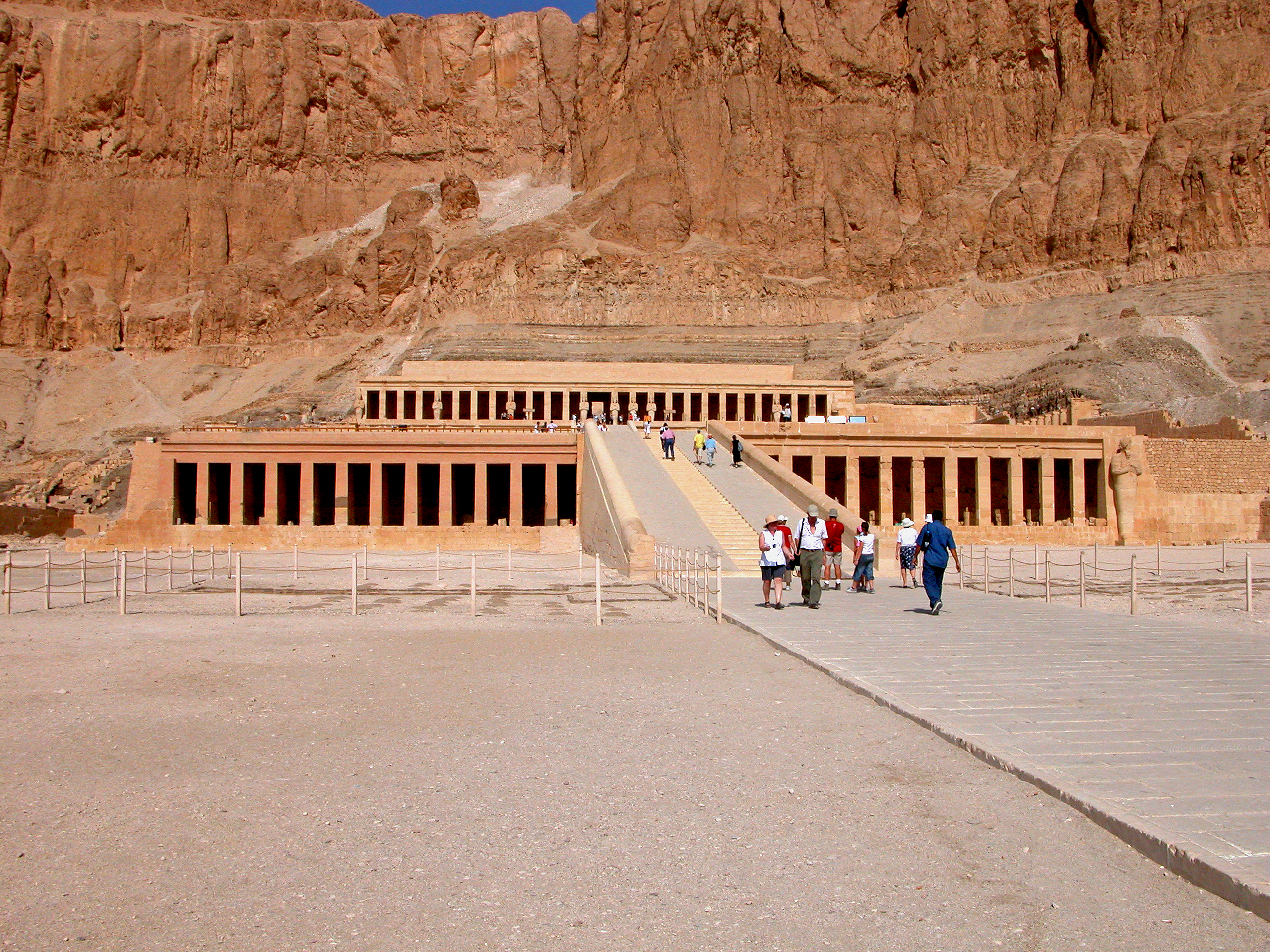 PLEASE, no multi invitations, glitters or self promotion in your comments, THEY WILL BE DELETED. My photos are FREE for anyone to use, just give me credit and it would be nice if you let me know, thanks - NONE OF MY PICTURES ARE HDR. The Temple of Hatshepsut arose as a necropolis, consecrated to the goddess Hathor in the eleventh dynasty (2120 - 1991 BC). It was then abandoned until queen Hatshepsut took it over some five hundred years later. After the abandonment (again), it was for a period turned into a monastery, whose existence there is the reason for its being so well preserved, has given it its present Arabic name, Deir el-Bahri. The temple is built into the rock itself, and consists of three terraces. It was created by the famous architect Senmut. Queen Hatshepsut is best known as the only woman who actually reigned as a pharaoh - probably to her son's annoyance. Hatshepsut took over the rule of Egypt when her husband, Thutmosis II, died. Thutmosis II was incidentally both her husband and half-brother. When her son, Thutmosis III, came of age, she was so unhappy about handing over the power to him that she, together with the priests, figured out a way to avoid it. This way included wearing male clothes, as well as the false beard made of wood and leather worn by all pharaohs. On November 17, 1997, Islamist militants massacred 60 foreign tourists and four Egyptians on the West Bank outside the Temple of Hatshepsut; police killed the six assailants. The attack is believed to have been financed by Saudi terrorist Osama bin Laden. Deir el-Bahri, Egypt